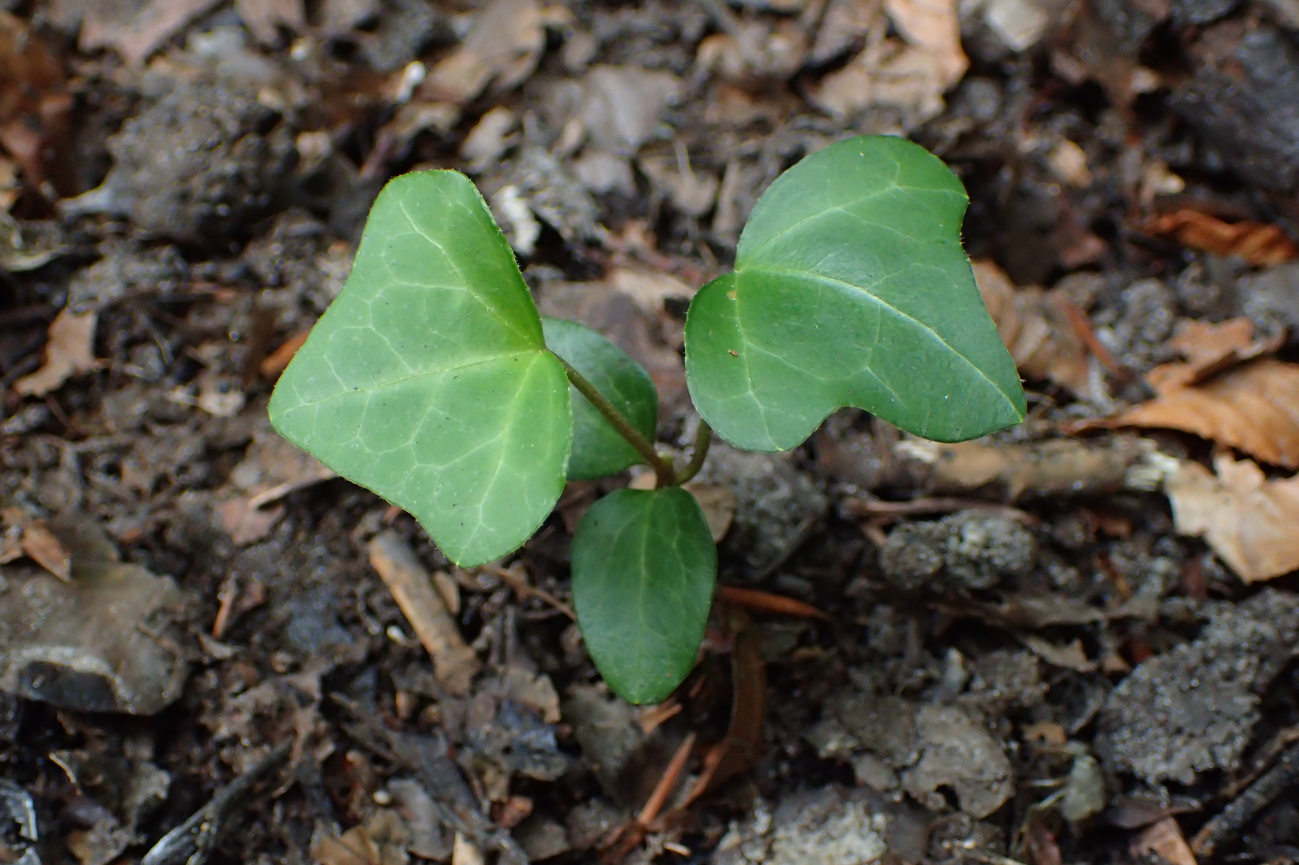 Hedera helix seedling in Szczecin Płonia, NW Poland